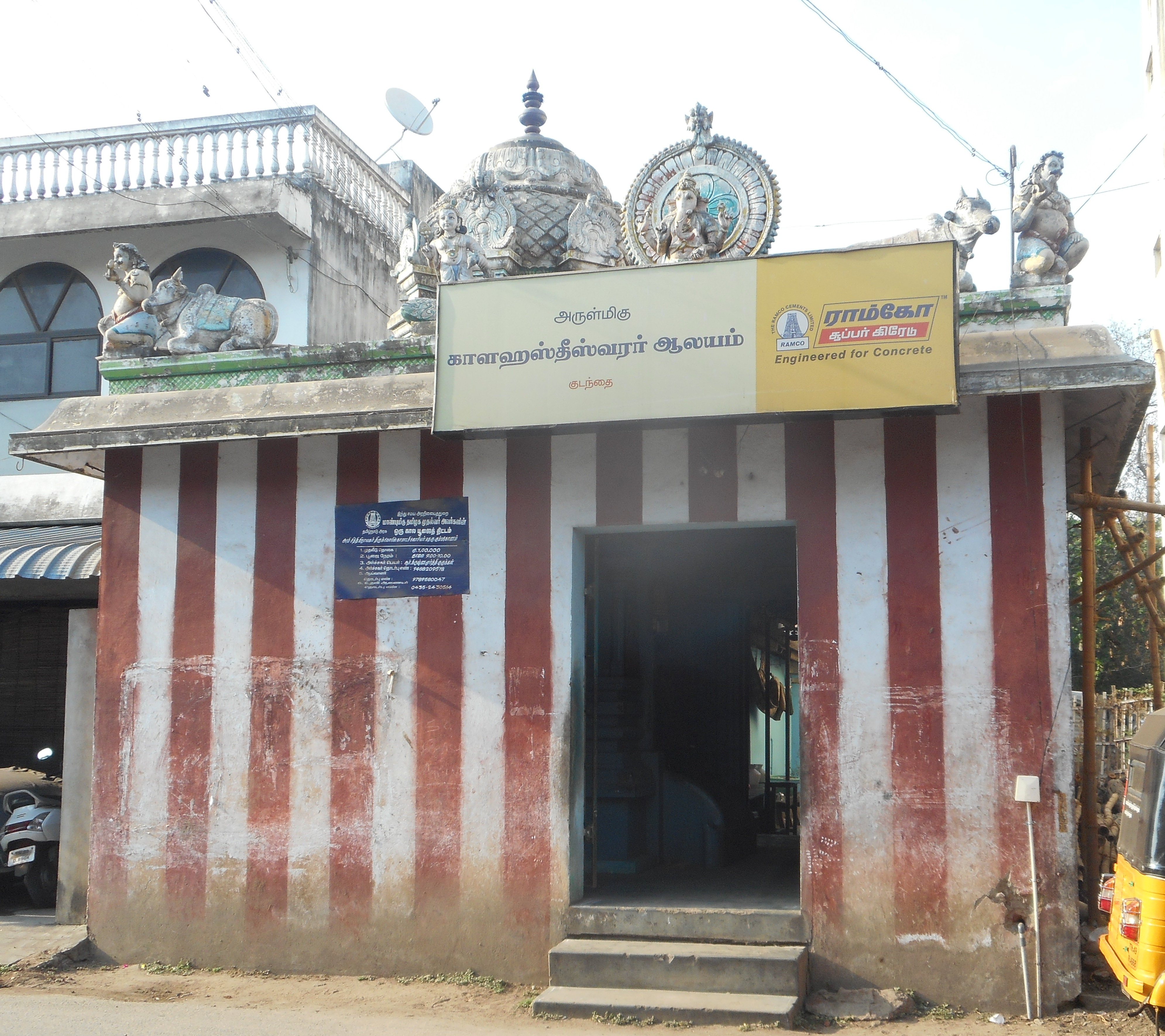 கும்பகோணம் சித்திவிநாயகர் கோயில்